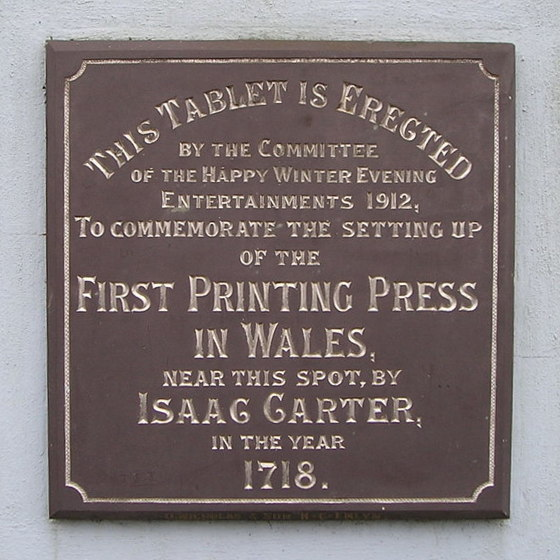 First Printing Press in Wales Plaque commemorating the first printing press in Wales, erected by the committee of the Happy Winter Evening Entertainments, 1912.